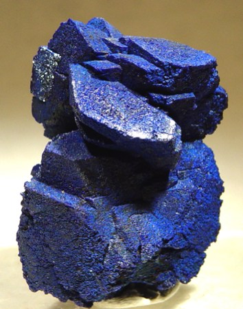 Azurite Locality: Morenci Mine (Morenci pit; Phelps Dodge Morenci Mine; Morenci-Metcalf), Morenci, Copper Mountain District (Clifton-Morenci District), Shannon Mts, Greenlee County, Arizona, USA (Locality at ) A SUPERB Arizona azurite, with two wonderfully-formed crystals, complete and undamaged all around, stacked atop one another. The crystals have intense blue color, NOT blackish, and sharp faces everywhere. The specimen looks great from almost any direction, with any orientation. Who could ask for anything more? 4.2 x 3.2 x 2.8 cm